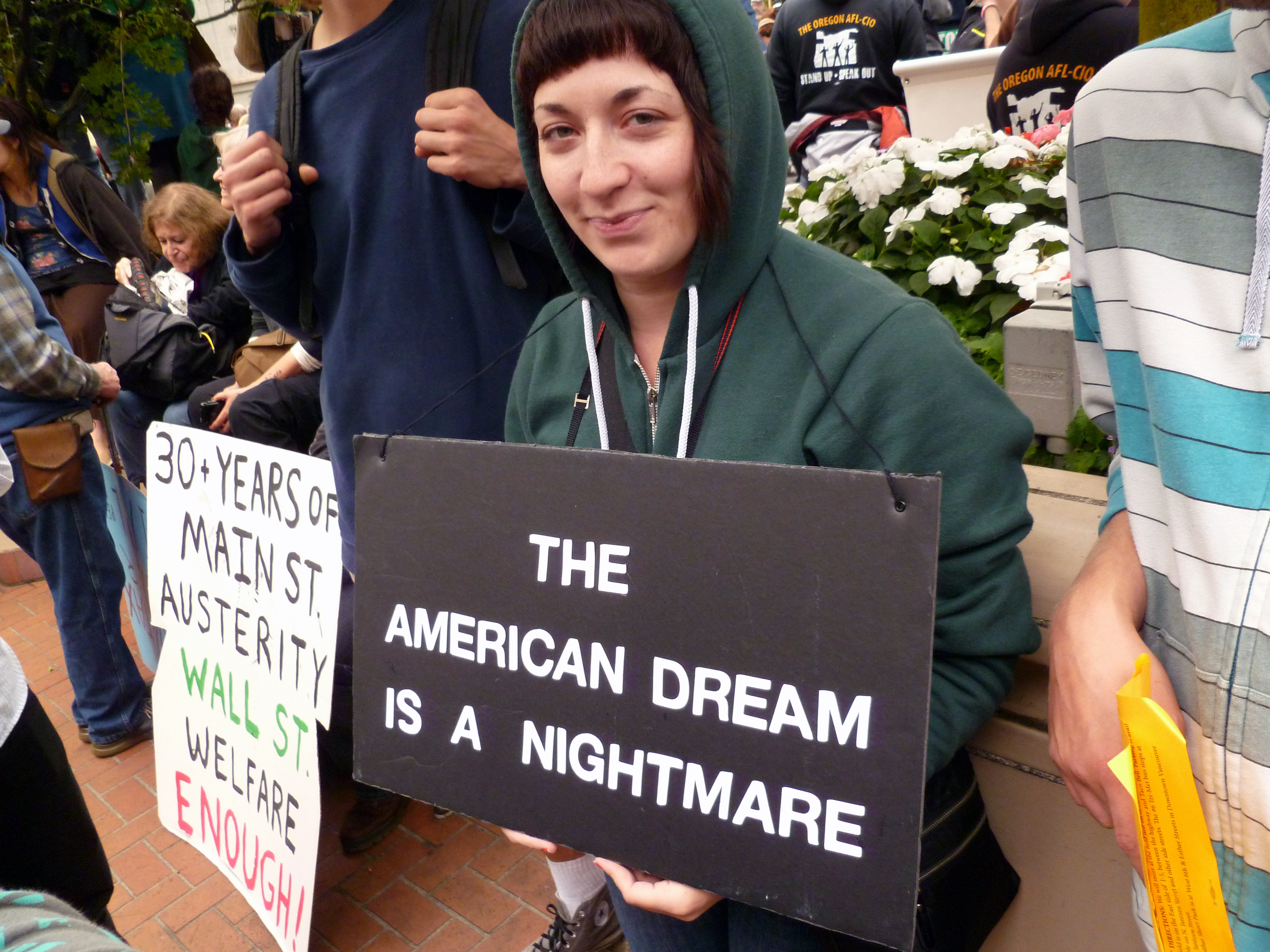 Occupy Portland. October 6, 2011